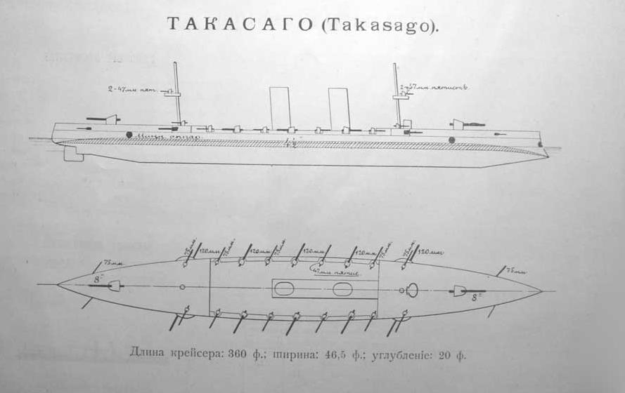 Takasago cruiser. 1904 rus_book